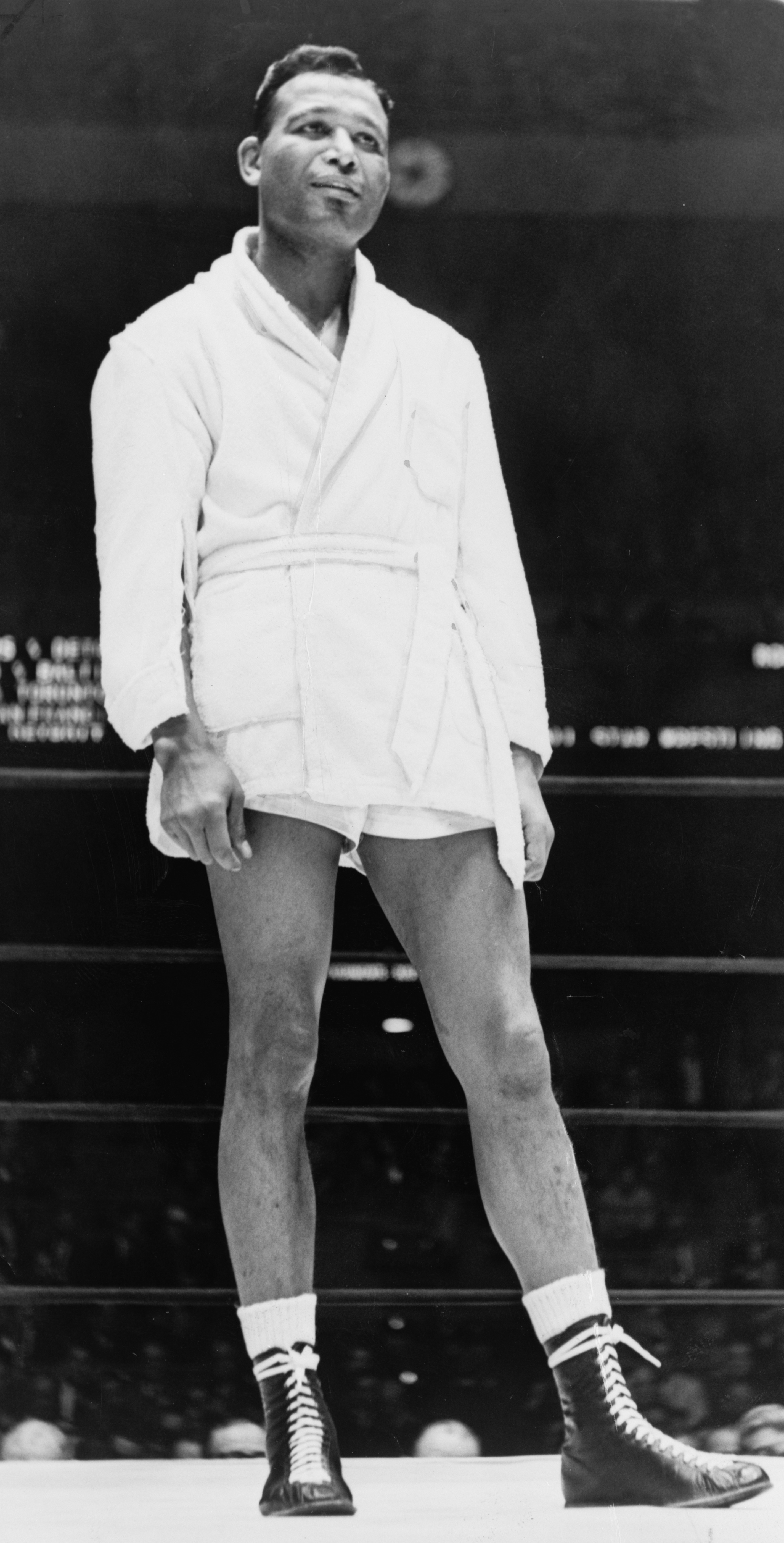 American boxer Sugar Ray Robinson (1921-1989) in the ring at Madison Square Garden for last time.